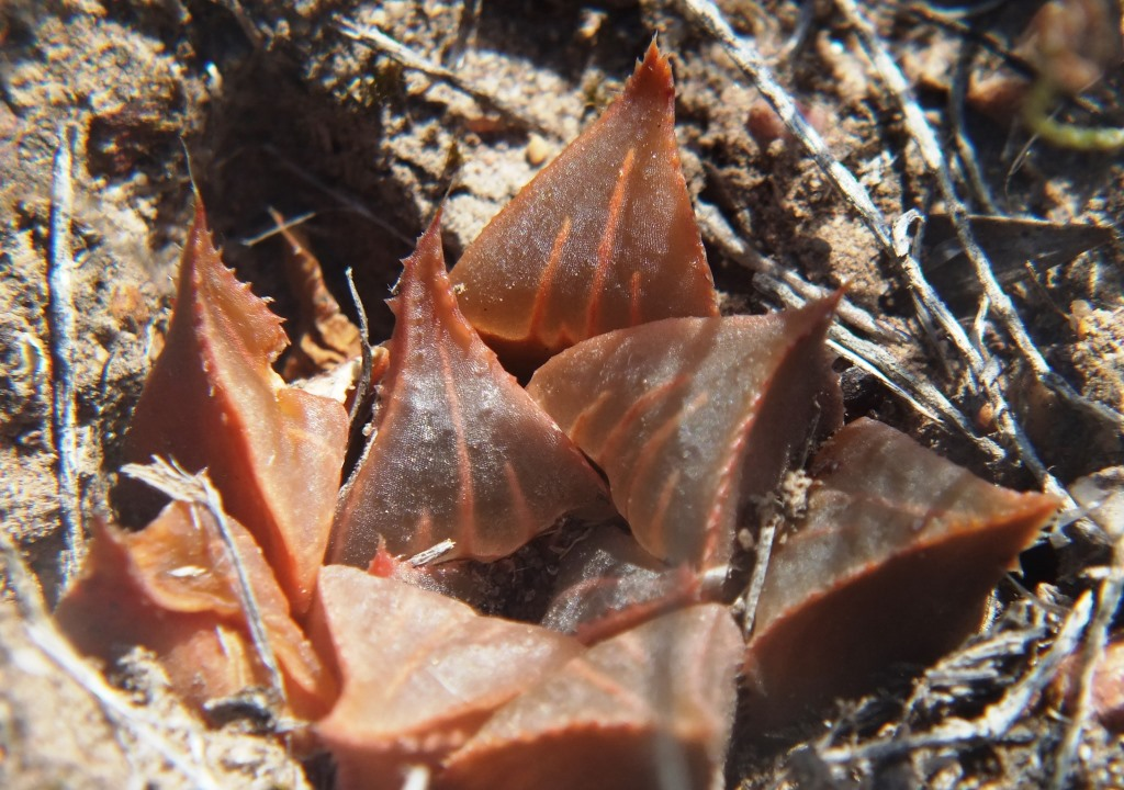 Haworthia mirabilis var mirabilis - Type variety